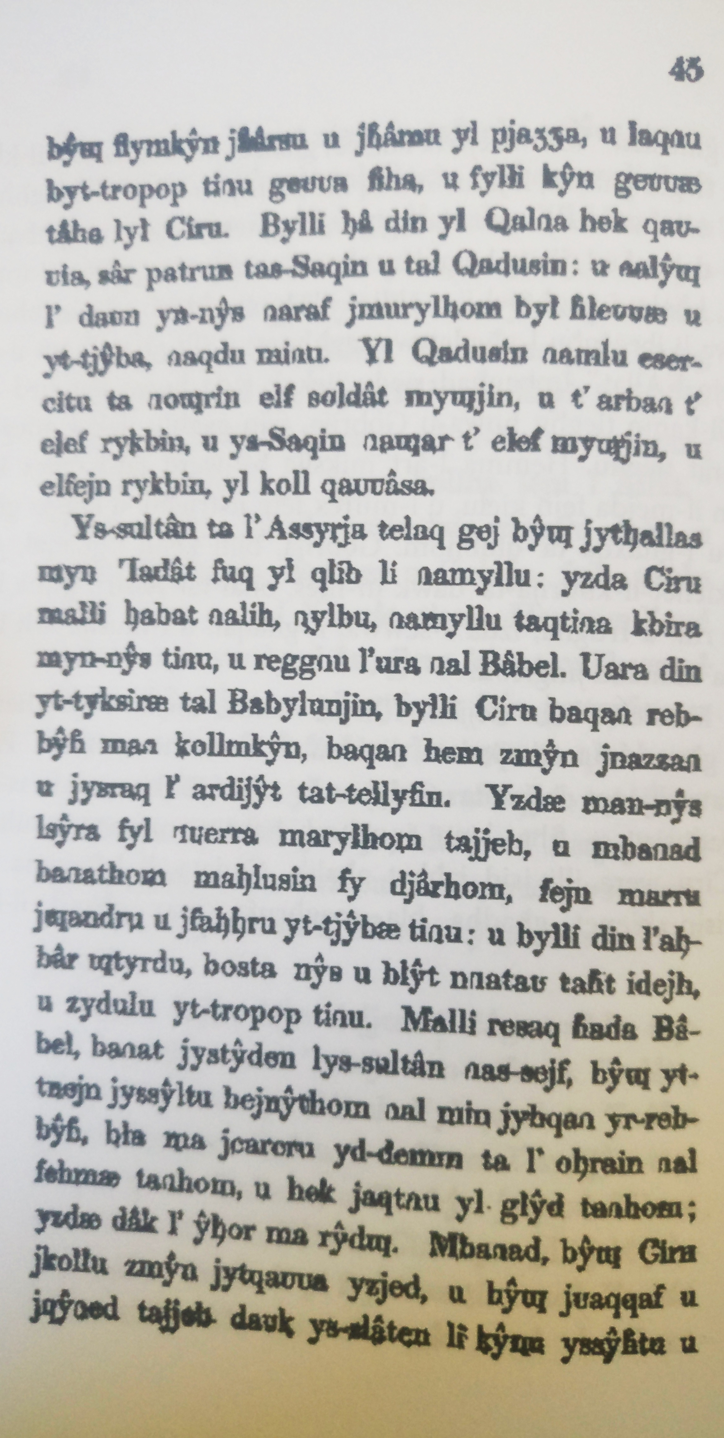 A piece of text from the works of Mikiel Anton Vassalli "L-Istorja tas-Sultan Ċiru". Used to illustrate the historical orthography of Maltese.